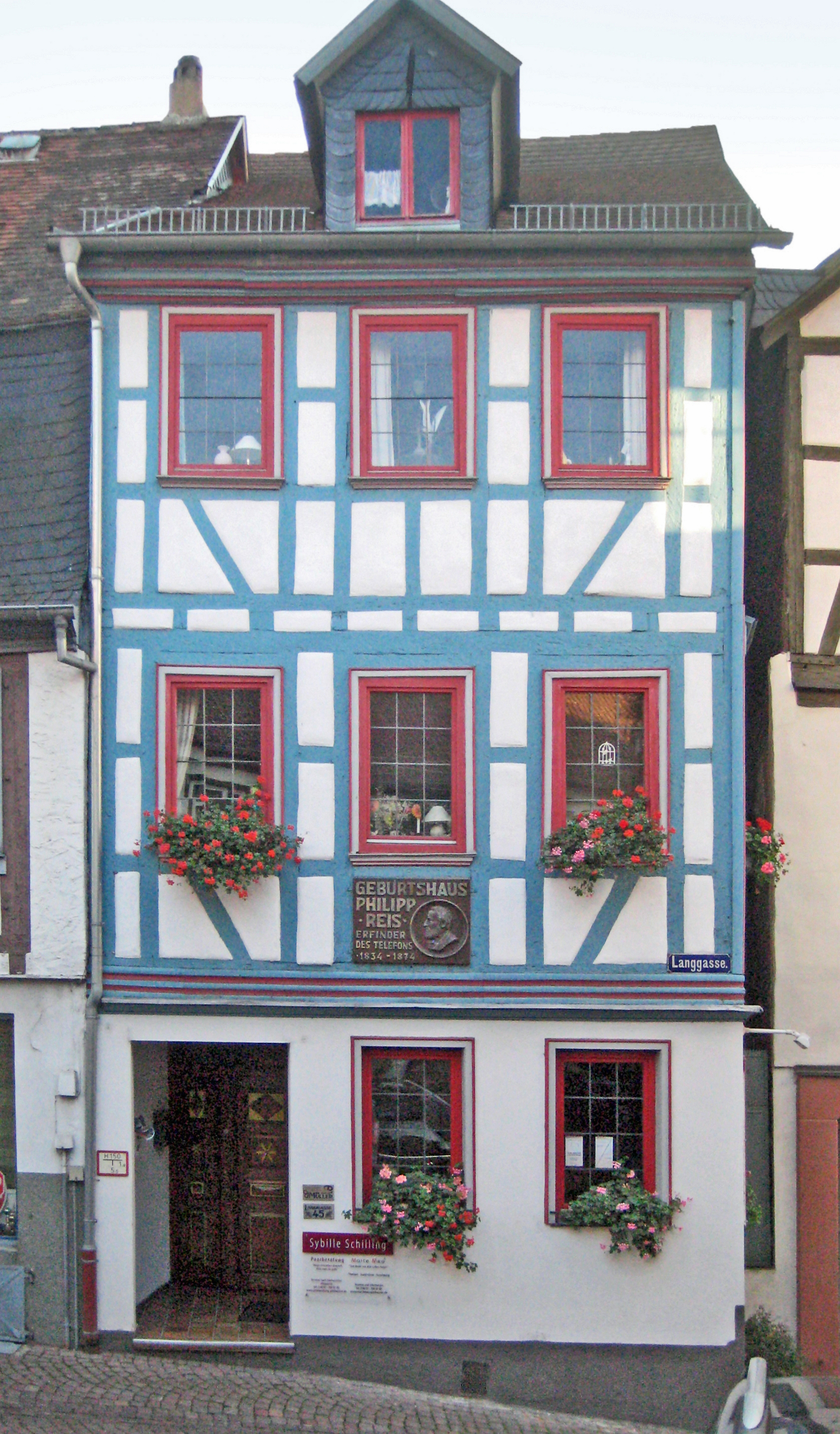 Birthplace of Philipp Reis in Gelnhausen, 45 Langgasse, Germany